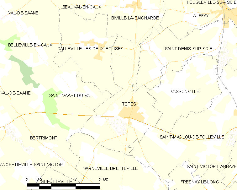 Map of French municipality Tôtes